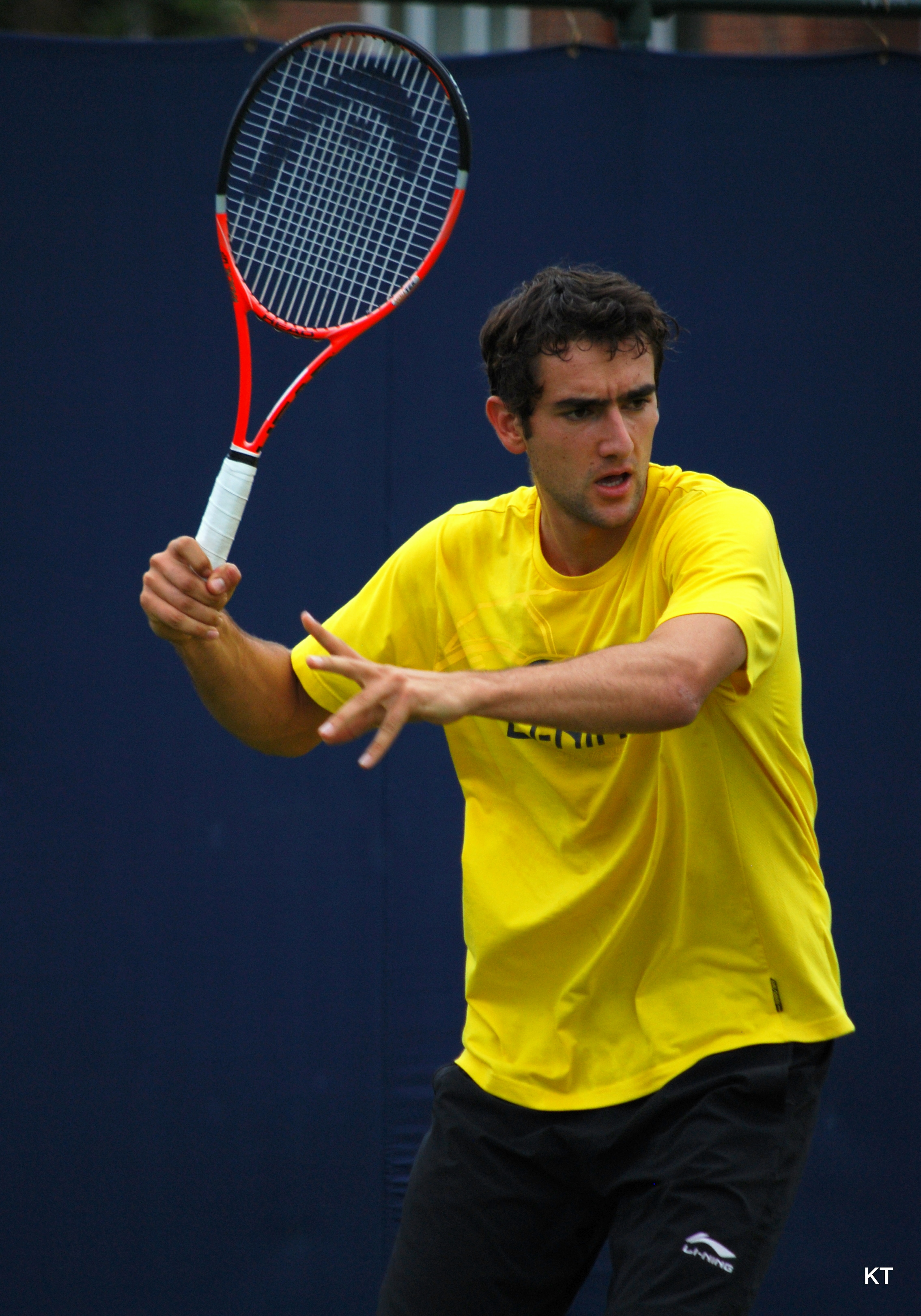 On the practice court. Day 1 of the 2011 Aegon Championships, Queen's Club.